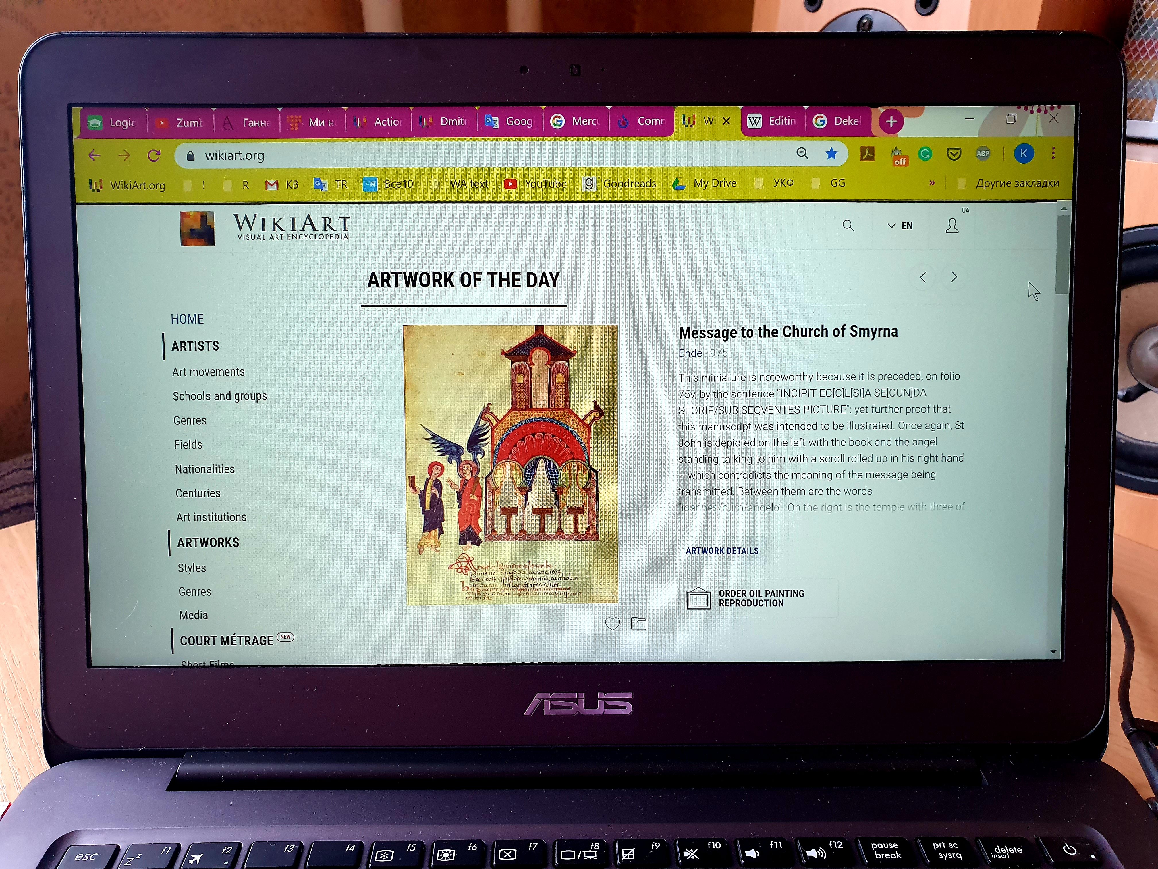 photo of the home page of the site